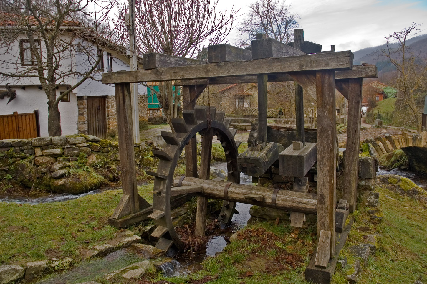 Fulling mill in the village of Aniezo (Cantabria, Spain)